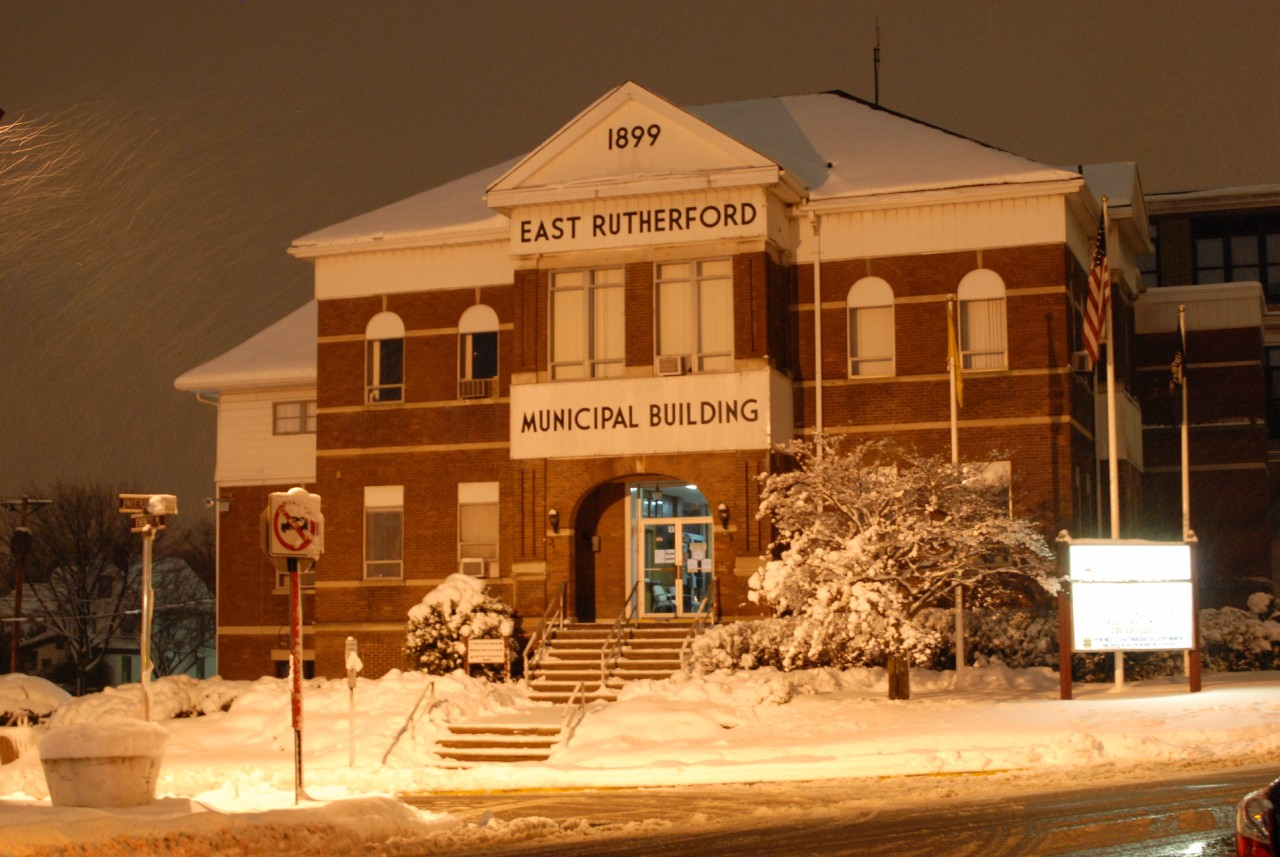 The Municipal Building of East Rutherford at a Snow night.